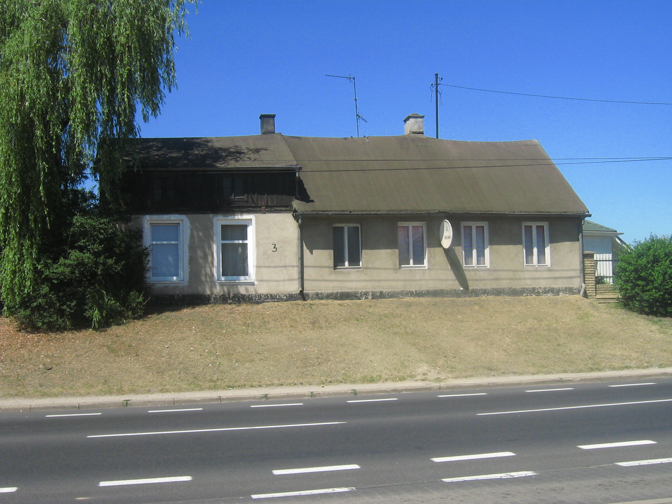 The house by Zawady-str. No 3 in Poznań (Poland)